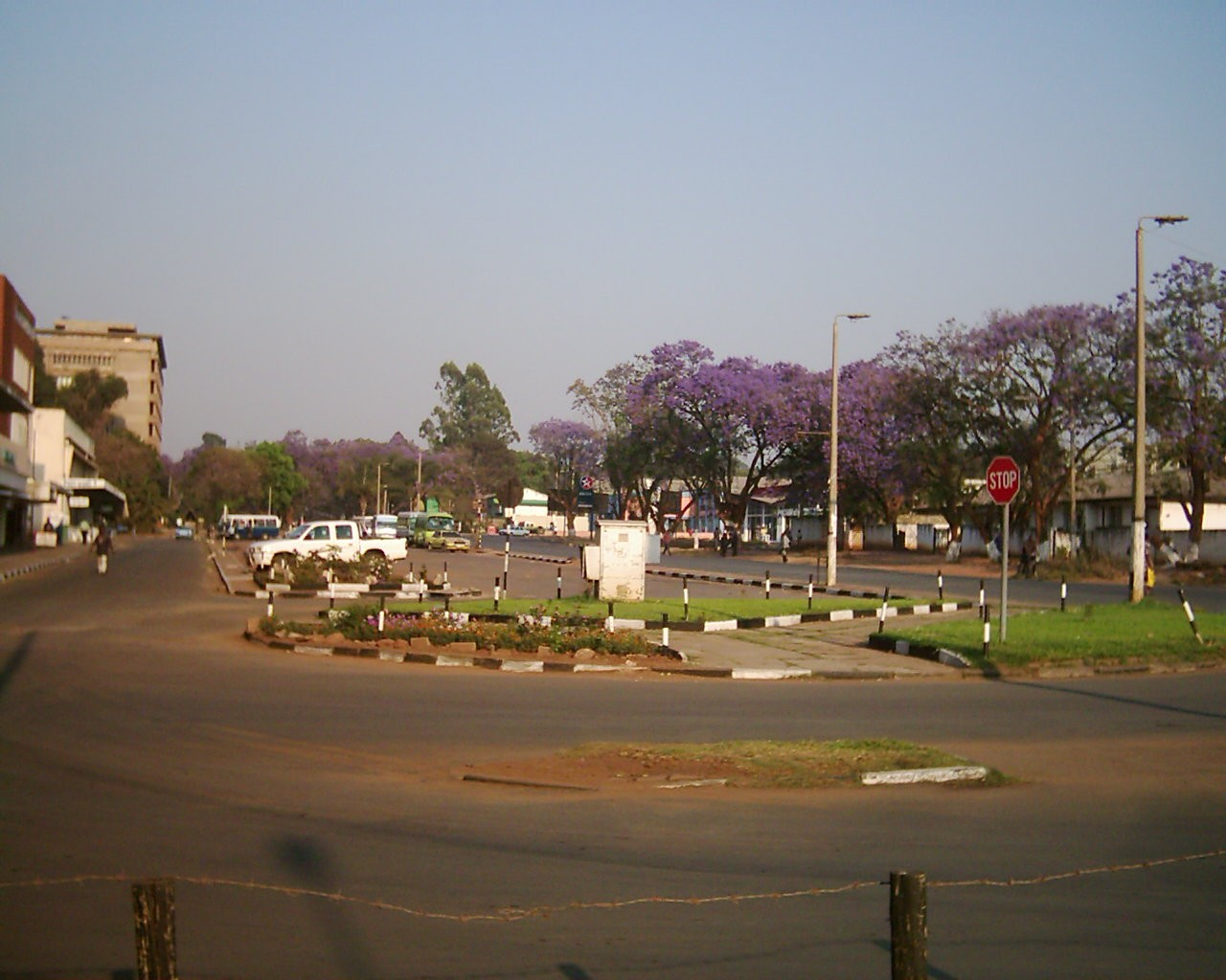 Streets of Ndola, Zambie